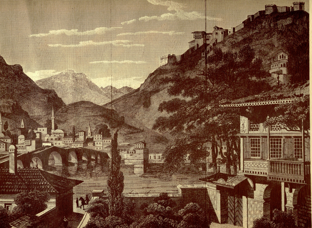 Berat 1830